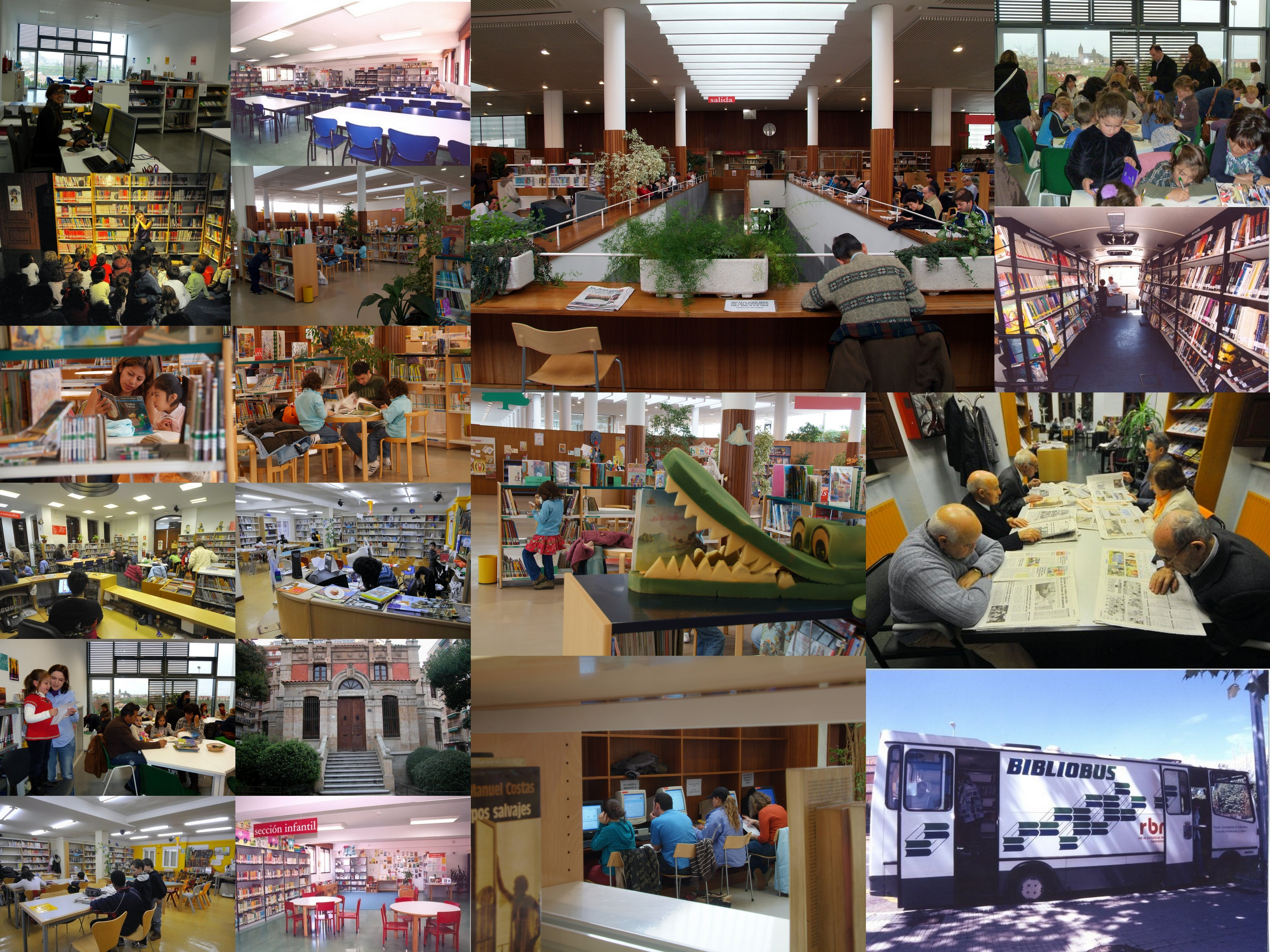 Salamanca municipal libraries